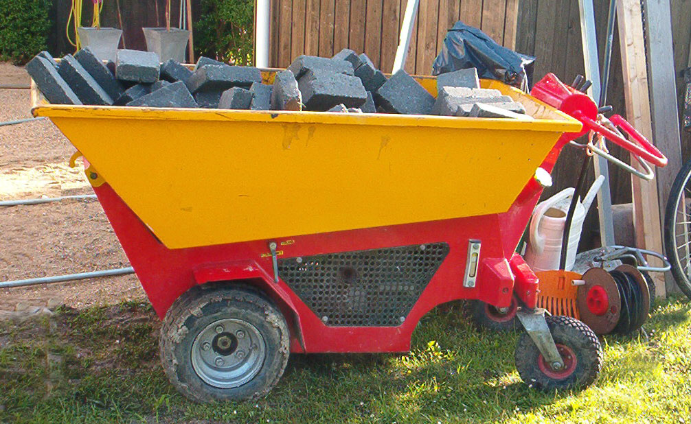 A walk-behind dumper